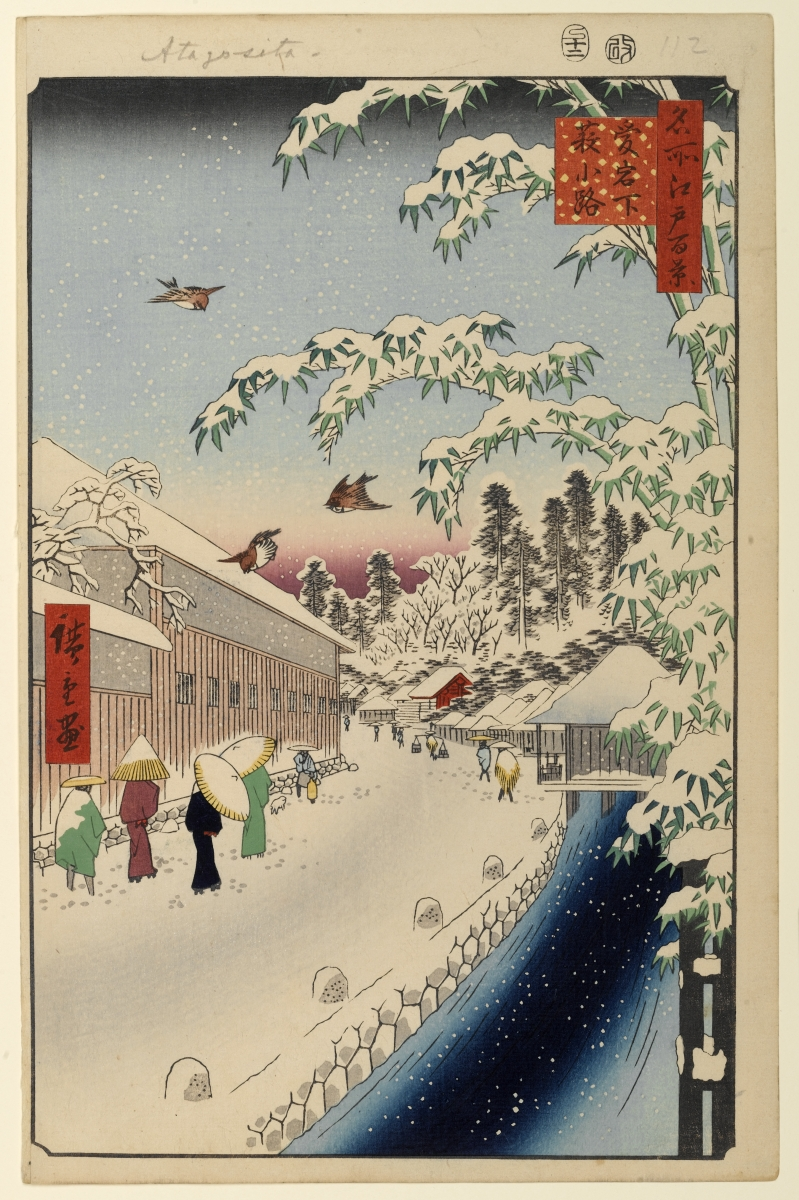 Part of the series One Hundred Famous Views of Edo, no. 112, part 4: Winter.